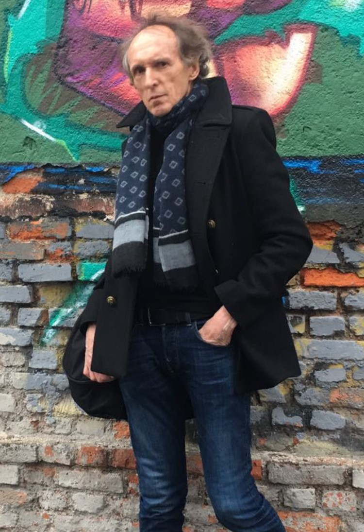 The visual artist and director Beat Kuert